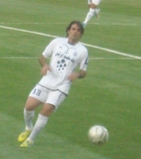 Javad Shirzad, Persepolis-Malavan match, 2012-13 Iran Pro League